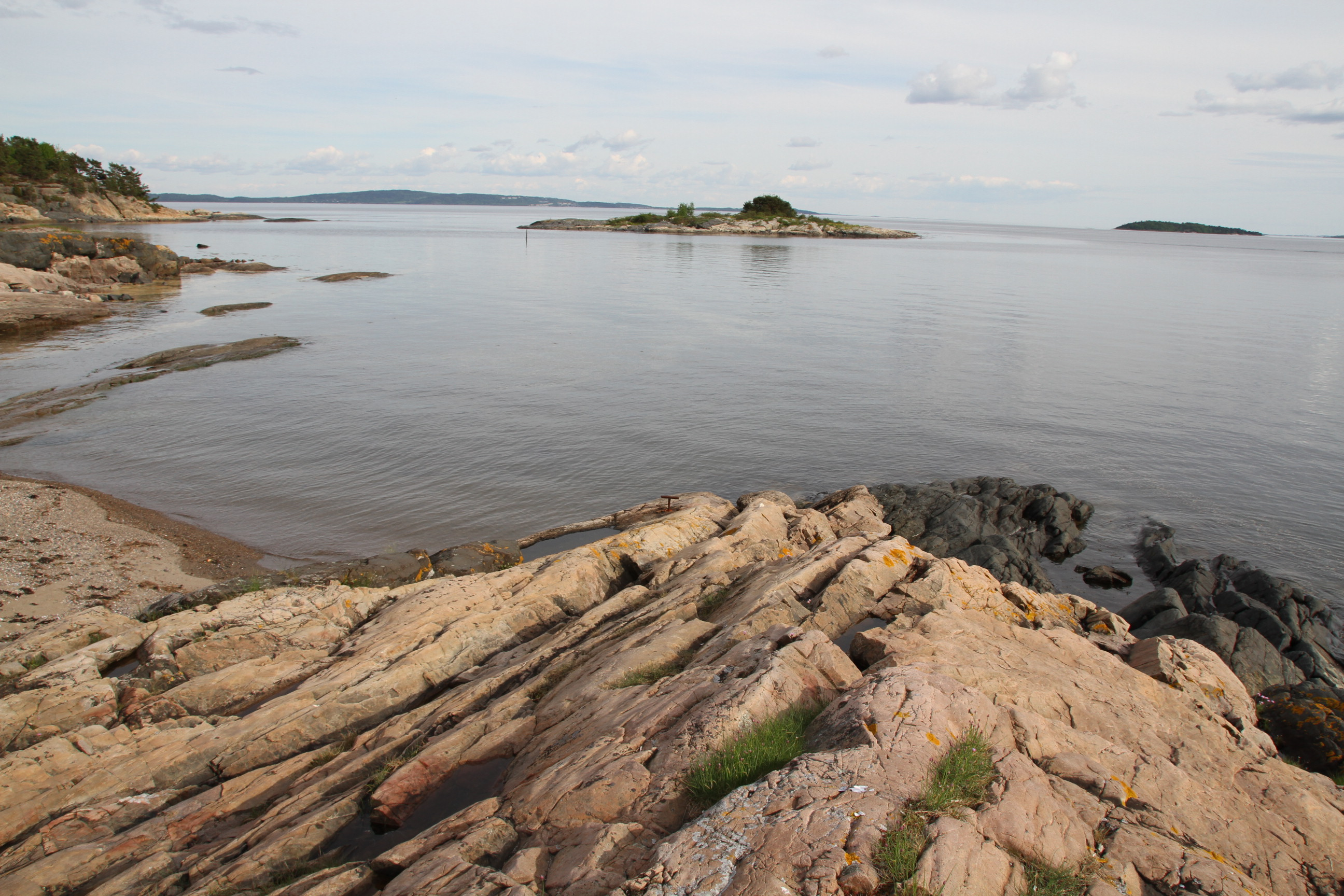 Image from Ersvika and Ersvikskjäret nature reserve, in Hurum (buskerud county), Norway. The water is the middle Oslo Fjord. The rocks in the front belong to a small craton portion of the otherwise younger Oslo Graben. The dominating minerals are leptite (bright) and an amphibolite intrisuin (dark).